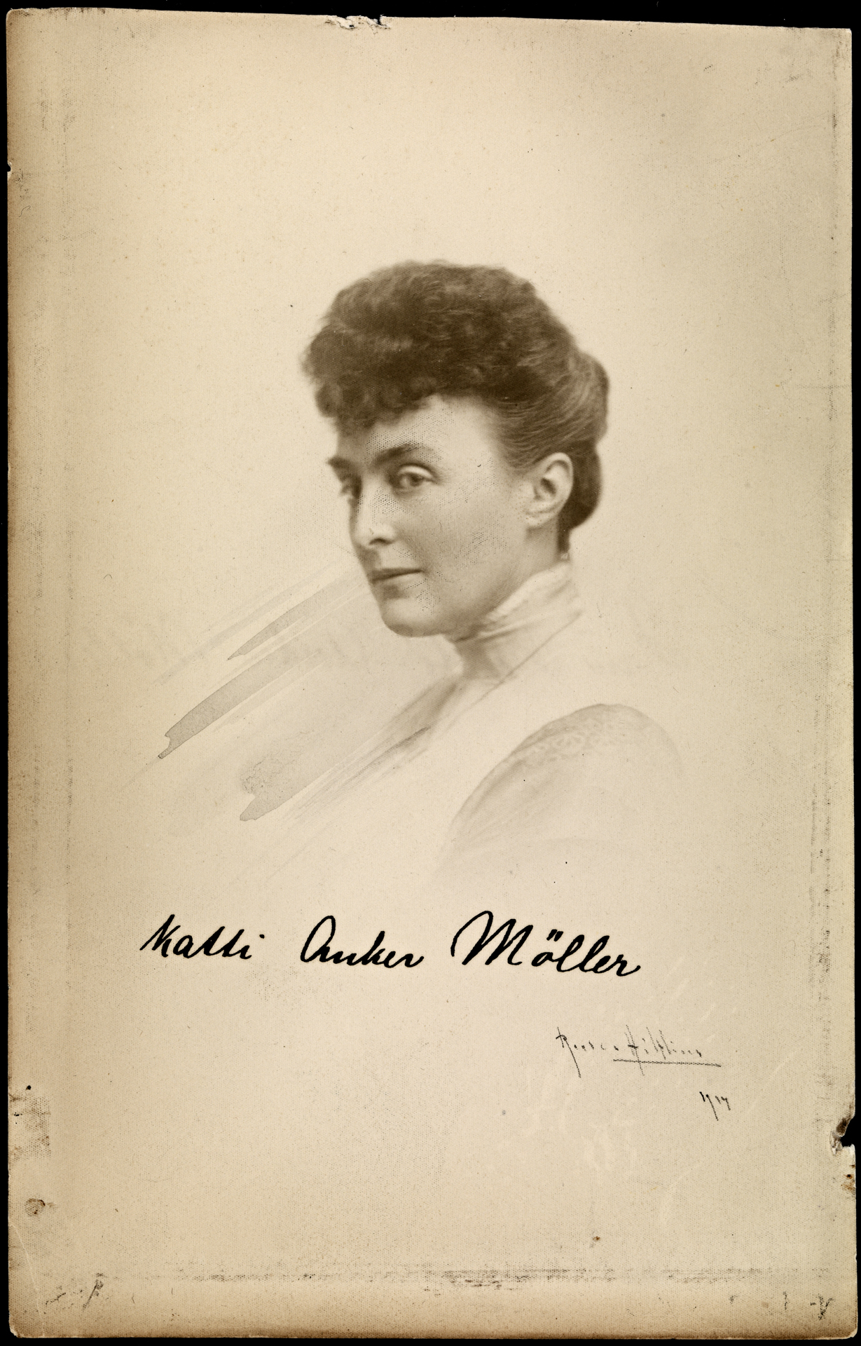 Tittel / Title: Portrett av Katti Anker Møller (1868-1945) Dato / Date: 1914 Fotograf / Photographer: Rude & Hilfling Eier / Owner Institution: Nasjonalbiblioteket / National Library of Norway Lenke / Link: Bildesignatur / Image Number: blds_03133